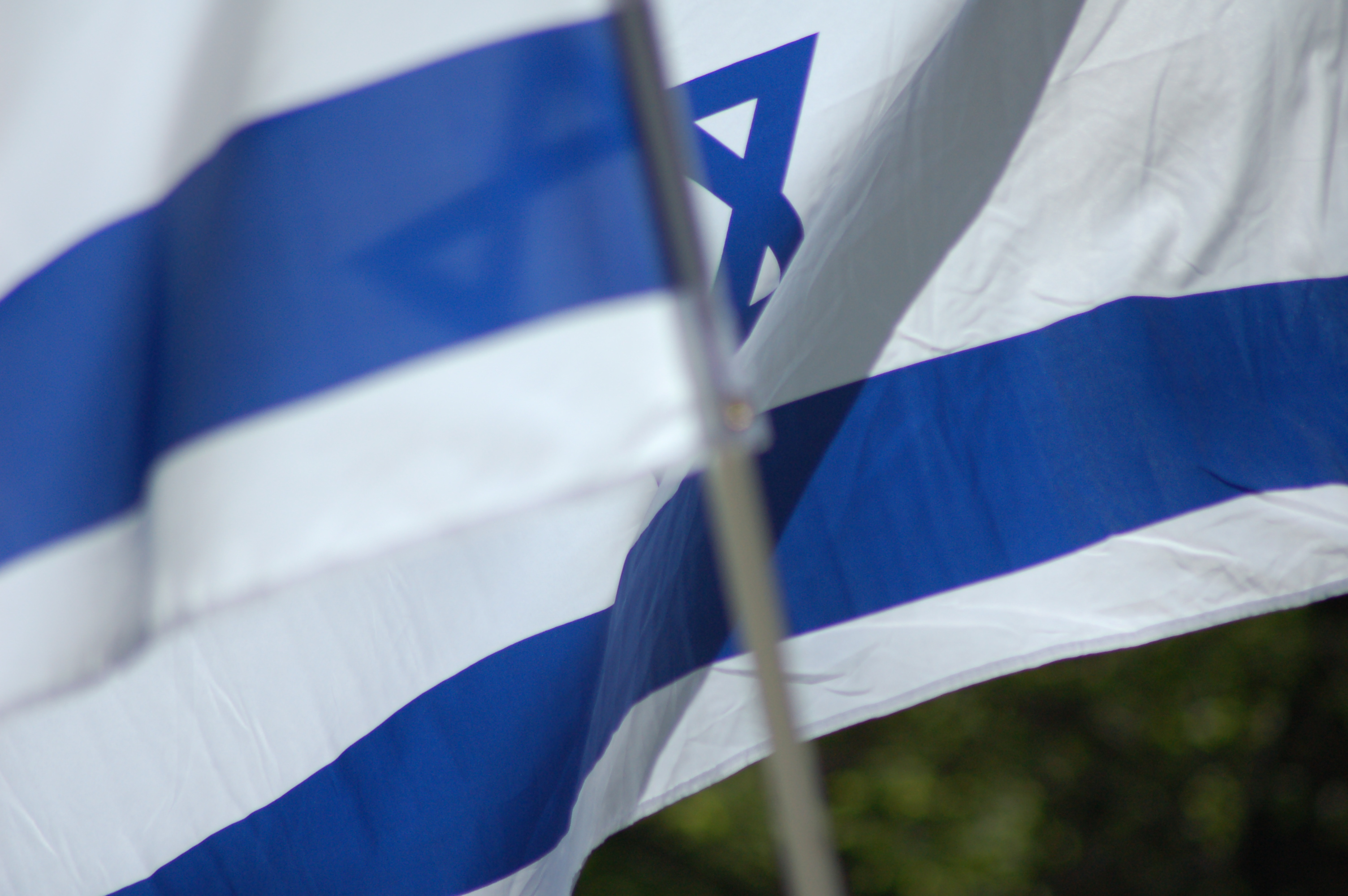 Interesting picture of Israeli flags being waved. I took this using a Nikon D50, 70-300mm lens, during the 2007 Israel Day Parade in NYC. I was introduced to the world of DSLR photography by my dear brother Alen, to whom I am indebted. Akalati 00:39, 8 August 2007 (UTC)